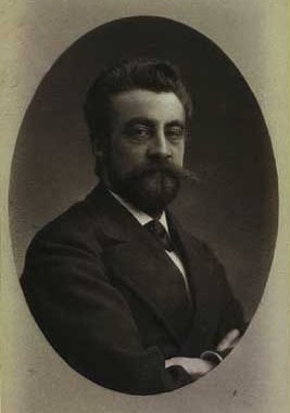 Danish architect Georg Wittrock (1843-1911)